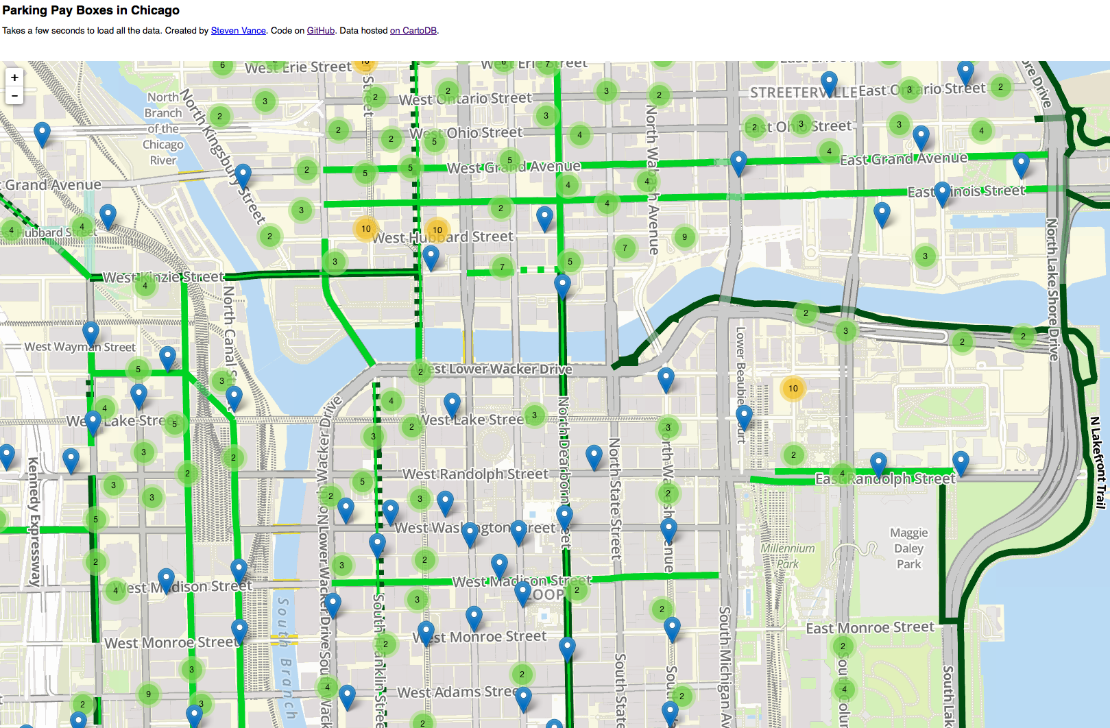 Parking Pay Boxes in Chicago - map screenshot. For a post on Web Map Academy about how I scraped the Chicago Parking Meters website and create a better map. With OpenStreetMap and CartoDB.